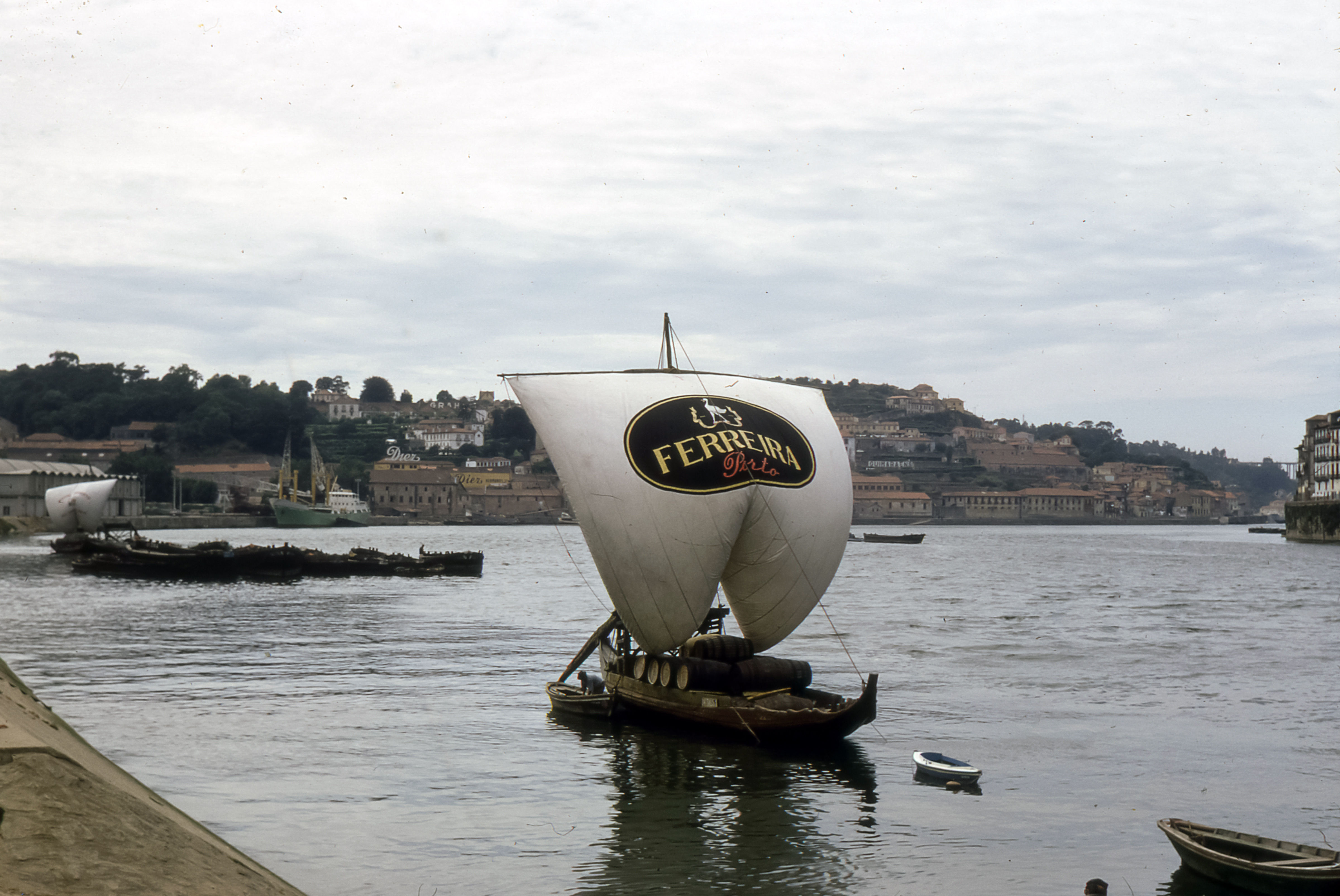 Rabelo, moored, facing to the cellars Ferreira.